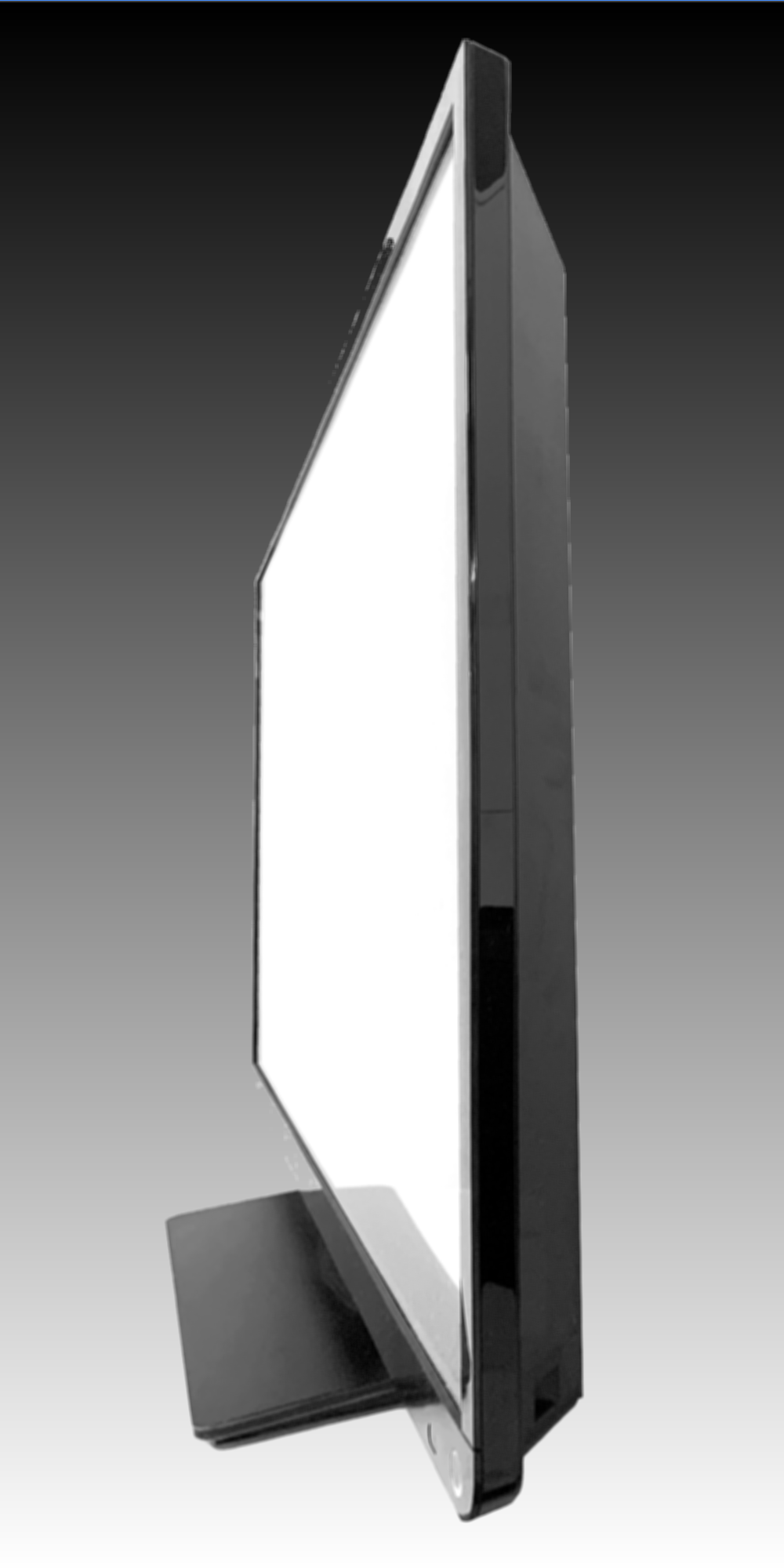 Flat panel display image